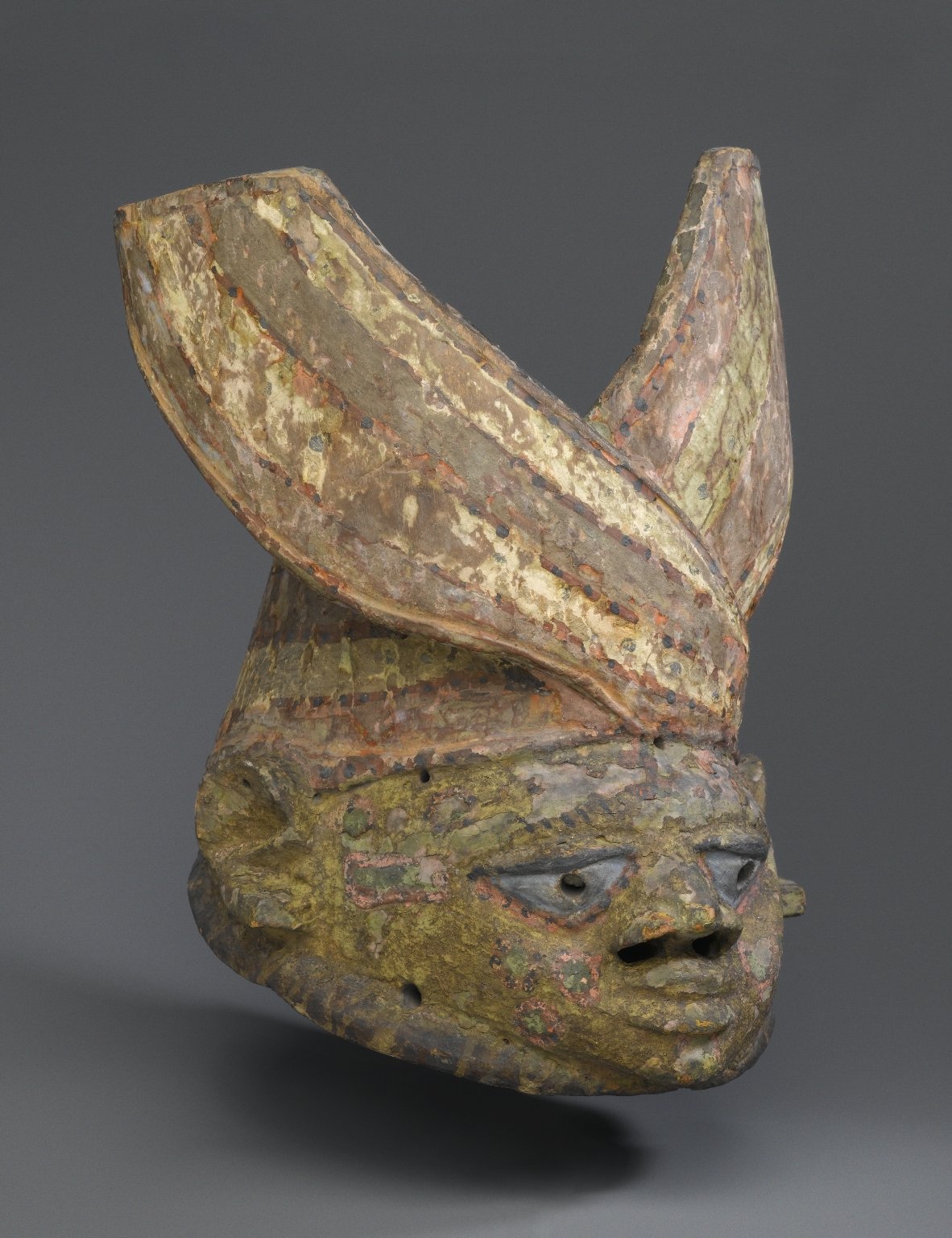 Mask with large elaborate headtie painted in many layers of yellow, blue, red, green, brown, and black. Nostrils pierced for wearer to see through. Condition is fair. Paint raised and cracked.